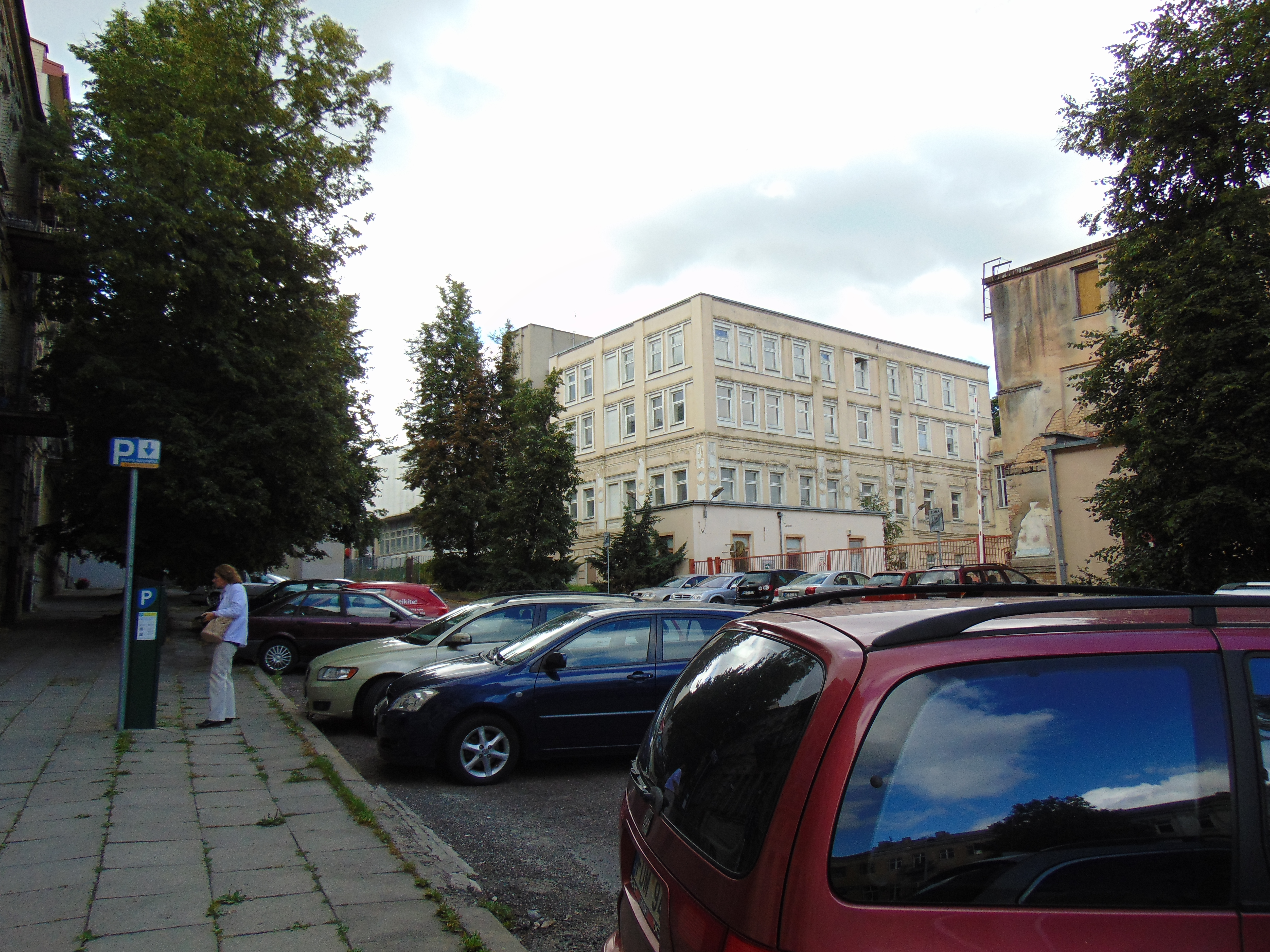 Tauras headquarters